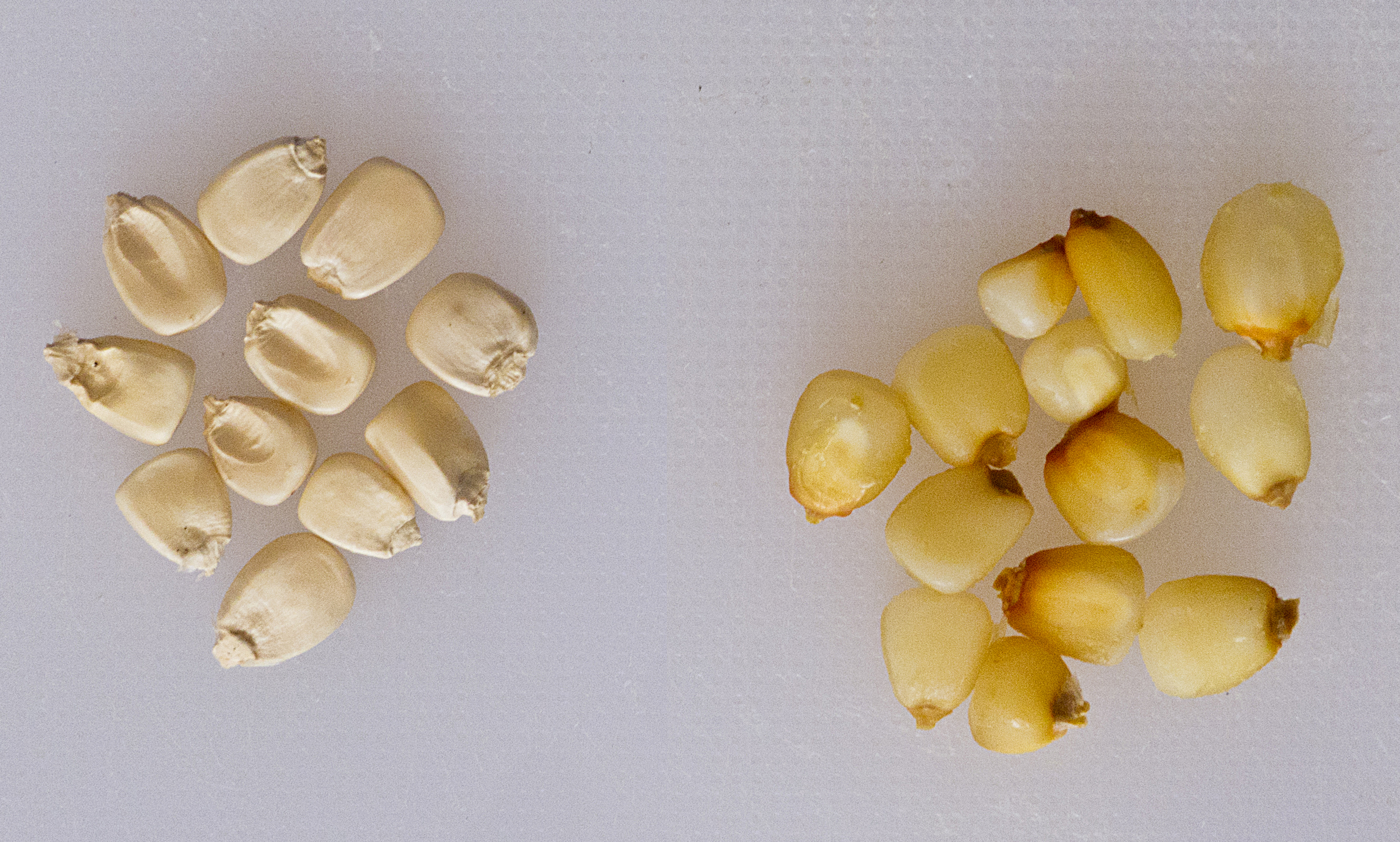 Corn before being treated with lime, and after boiling 15 minutes in lime (1 pound of corn for 1 tablespoon of lime, boil 15 minutes, let soak for a few hours, then wash). These are then ground for tortilla flour. (Here the hulls have not been yet removed, but should be after treatment).